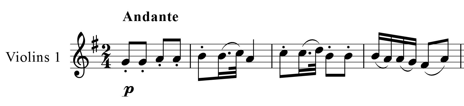 Joseph Haydn, Symphony No. 73, second movement, bar 1-4